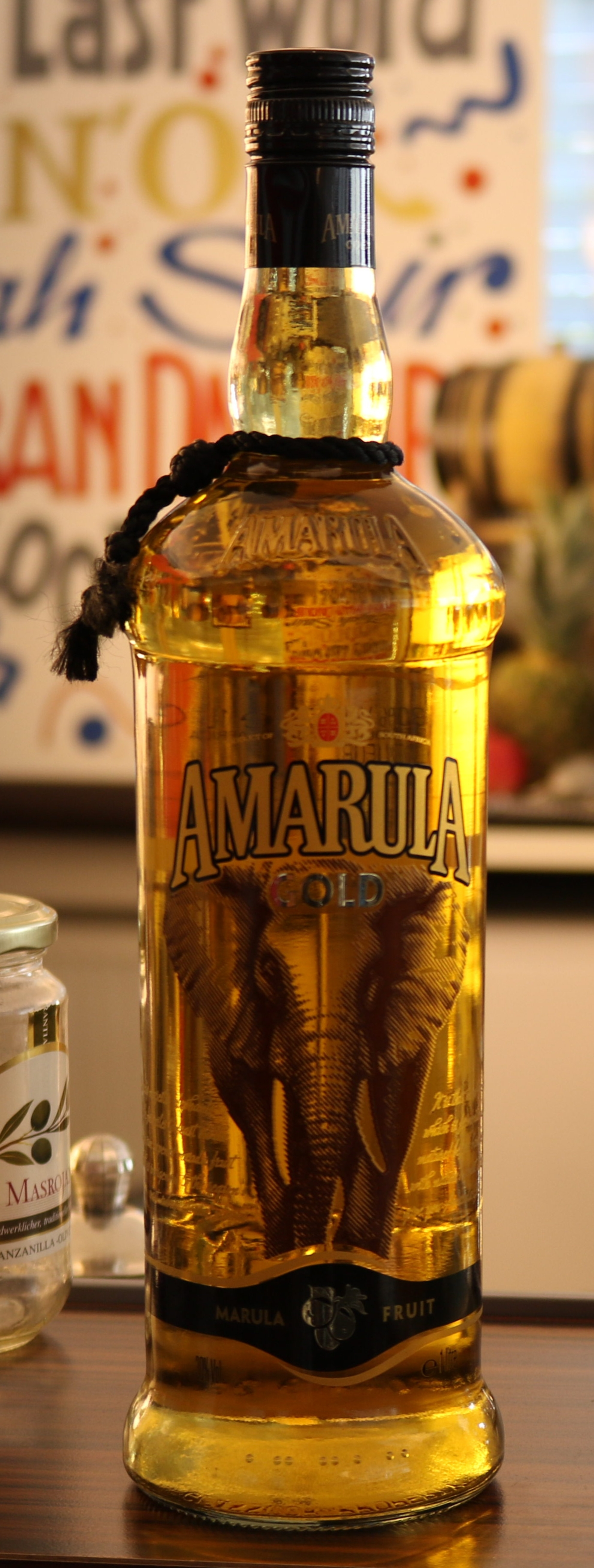 A bottle of Amarula Gold, a marula fruit destillate.